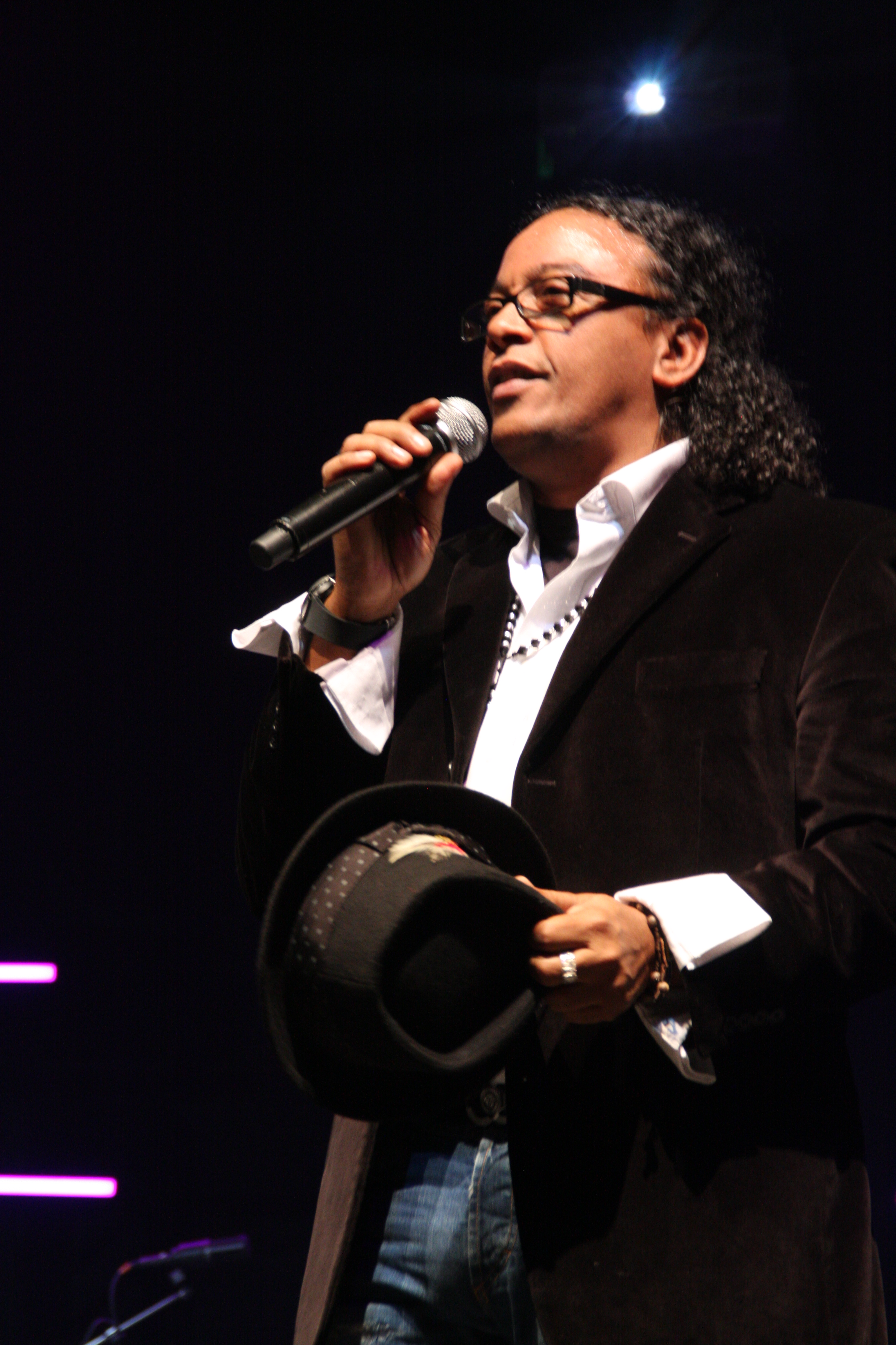 Dominican singer Sergio Vargas.